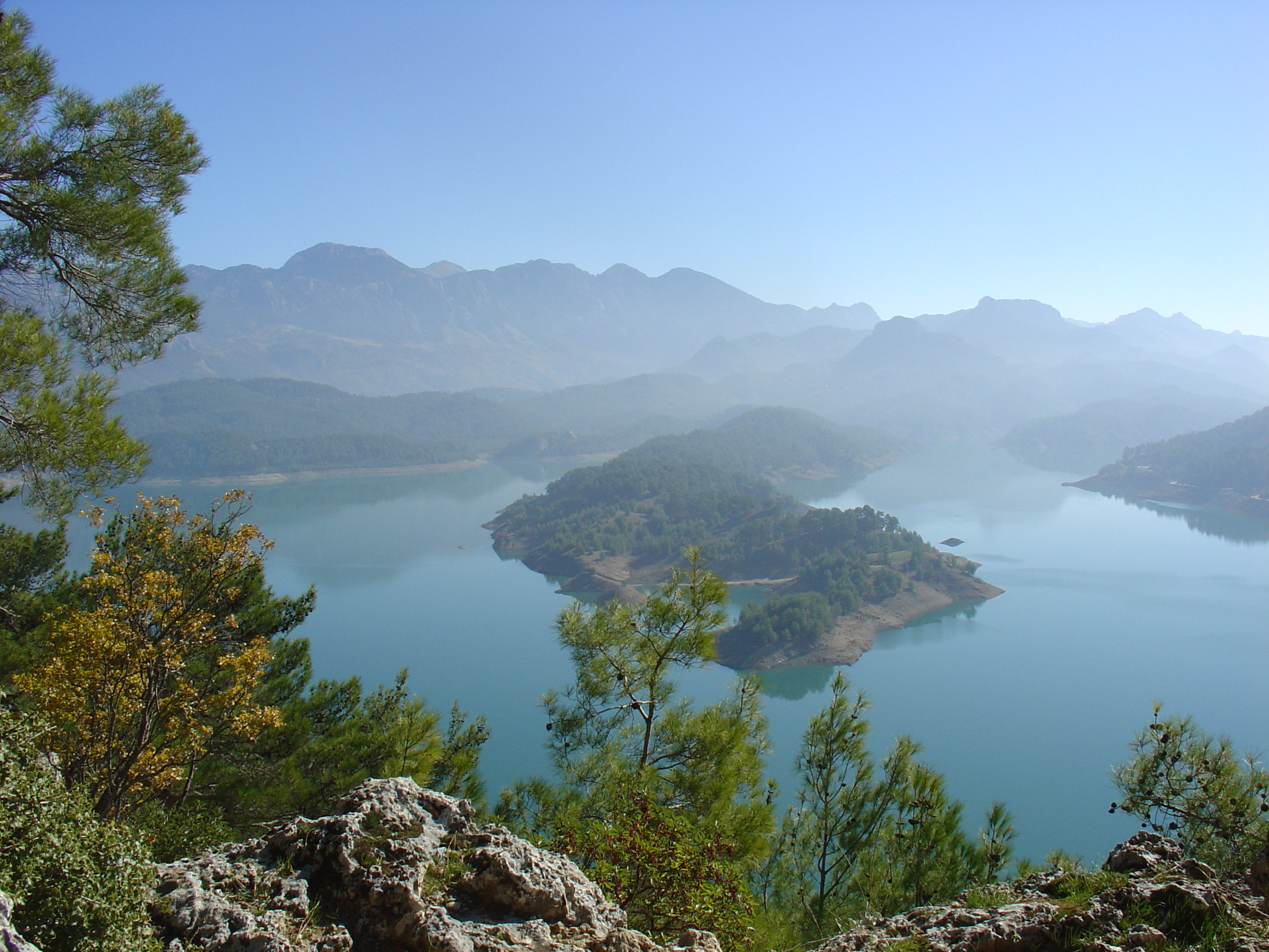 View over the Karacaören reservoir in the Taurus Mountains, Antalya region, Turkey